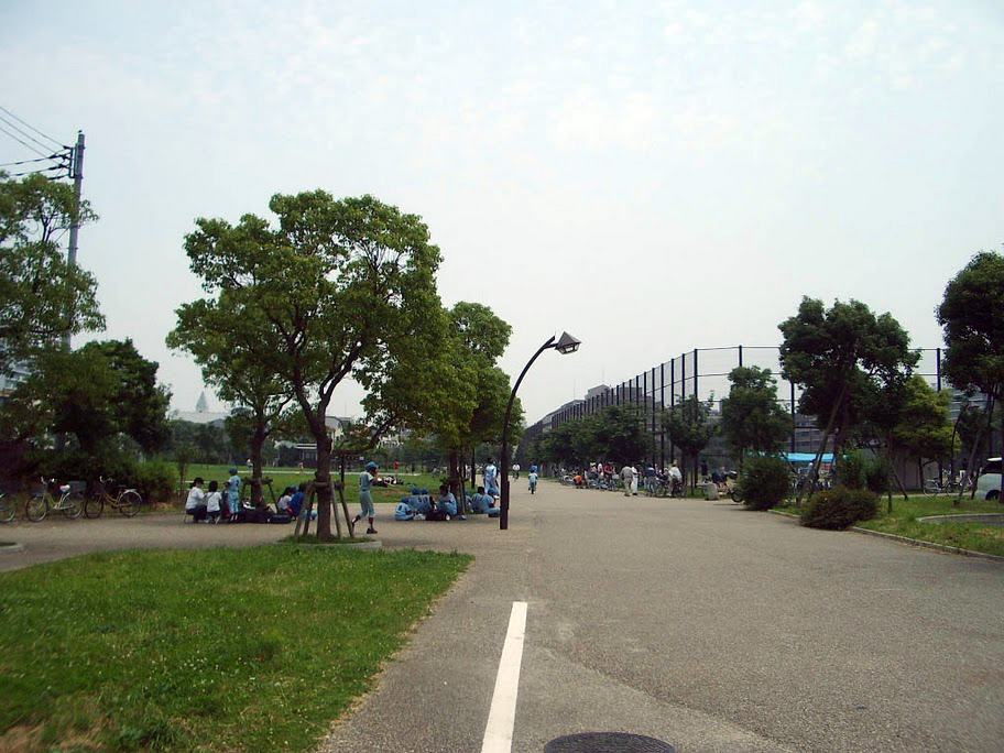 Ukita Park.